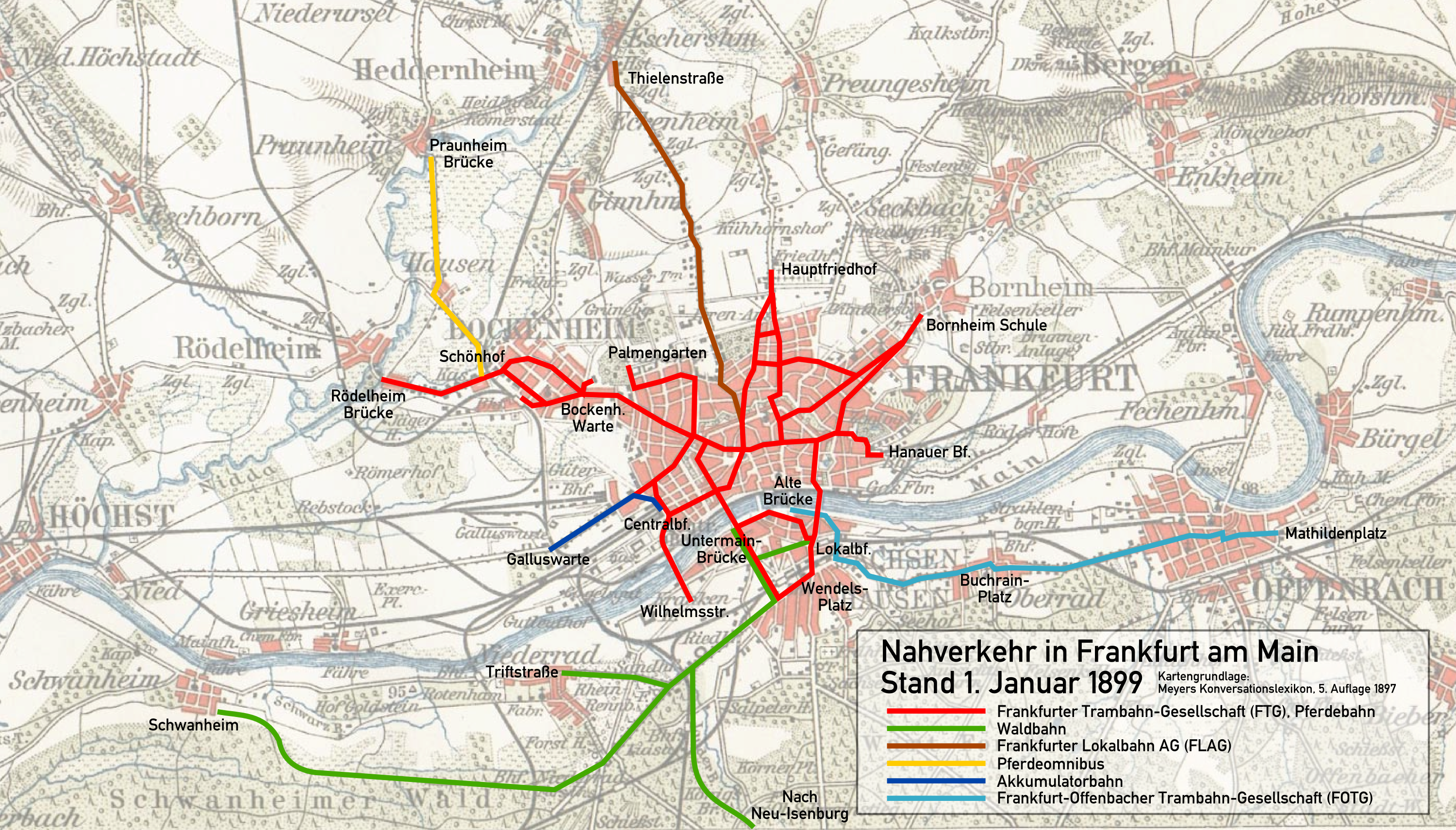 Public Transport network of Frankfurt am Main, Germany, on January 1st, 1899. Background from Media:Meyers5 Frankfurt.jpg